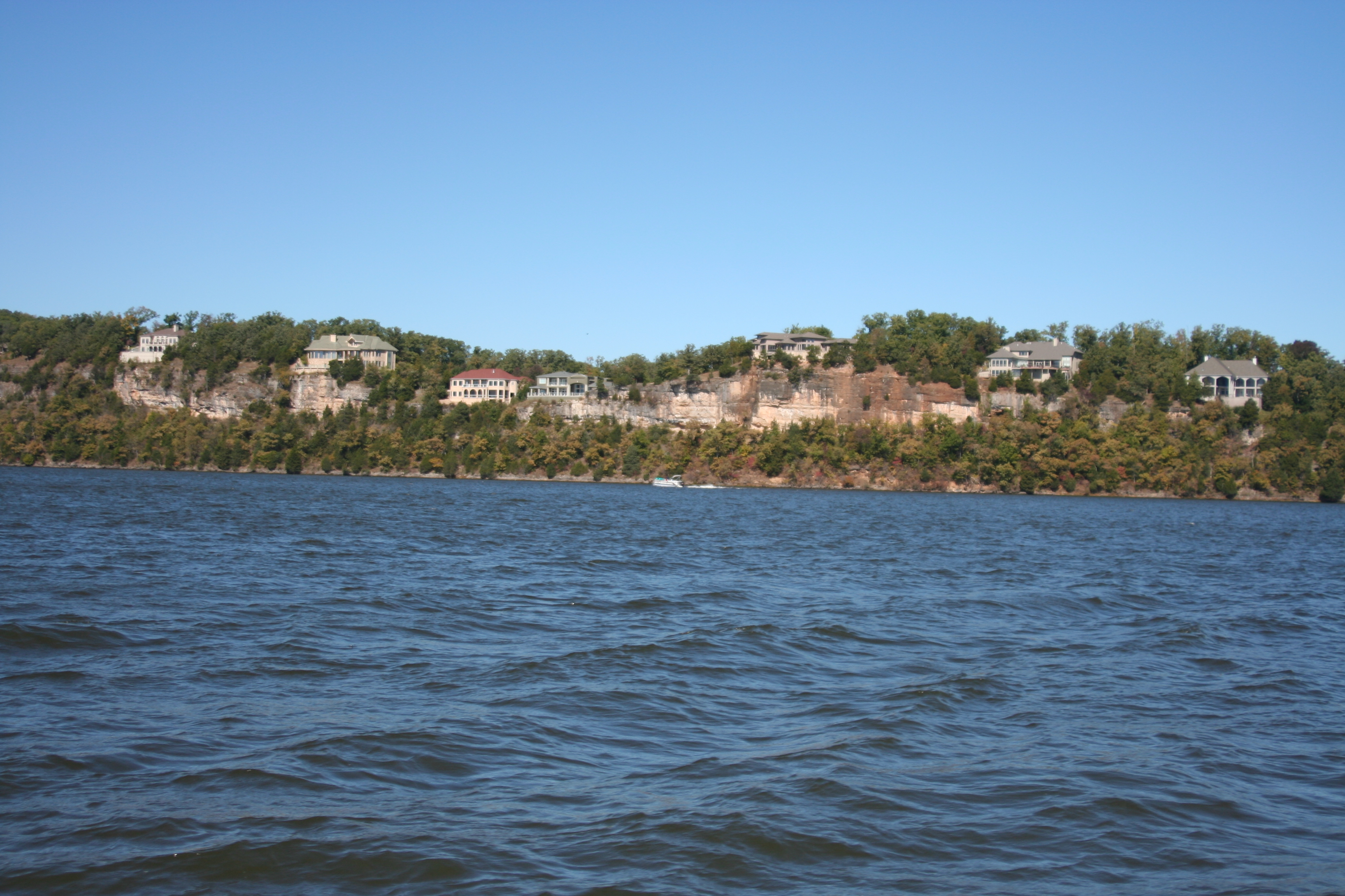 Houses on Lake of the Ozarks, Missouri, USA. Mile Marker=?